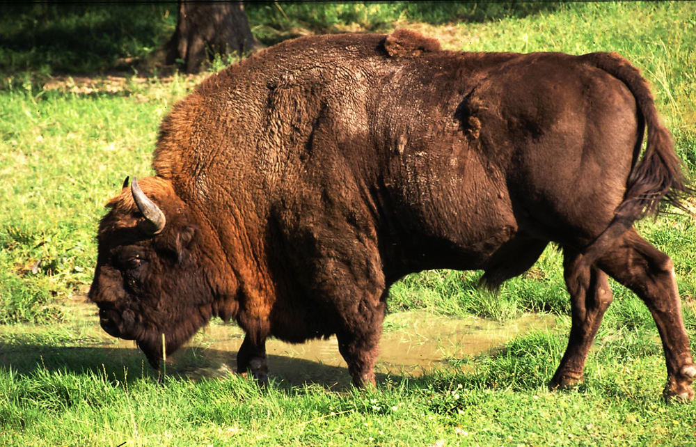 European wisent photographed in Białowieża, Poland